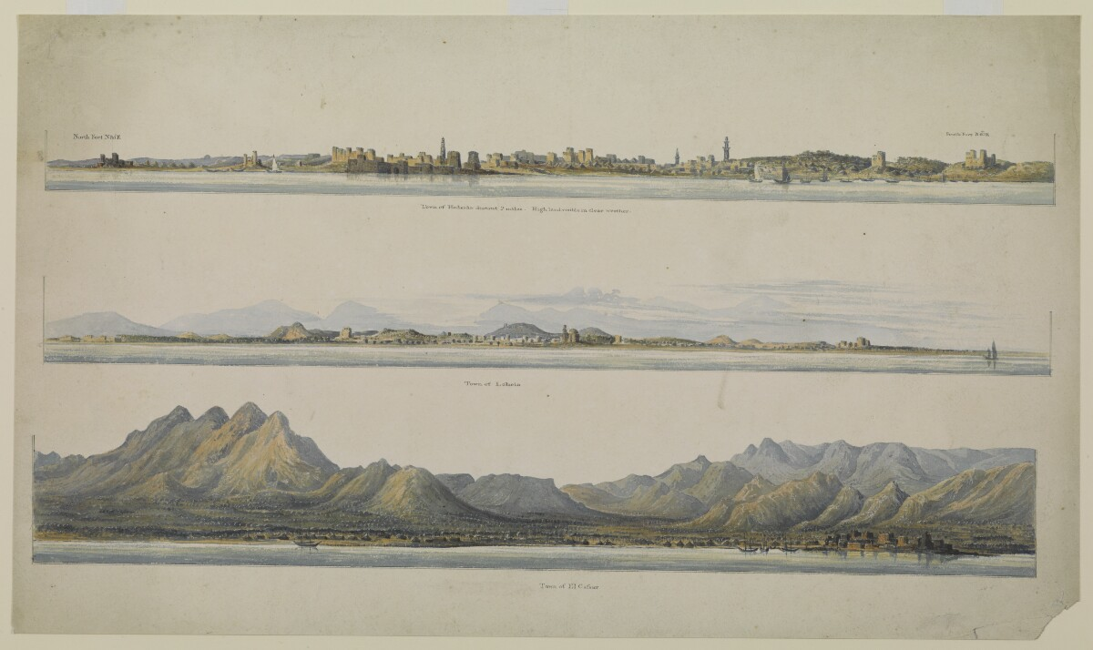 Three views of the coastal towns of Hodeida, Loheia and El Cassar by Thomas Elwon (1793/4–1835). 261 x 451 mm, Watercolour and pen on paper. The original is part of the British Library: Visual Arts.